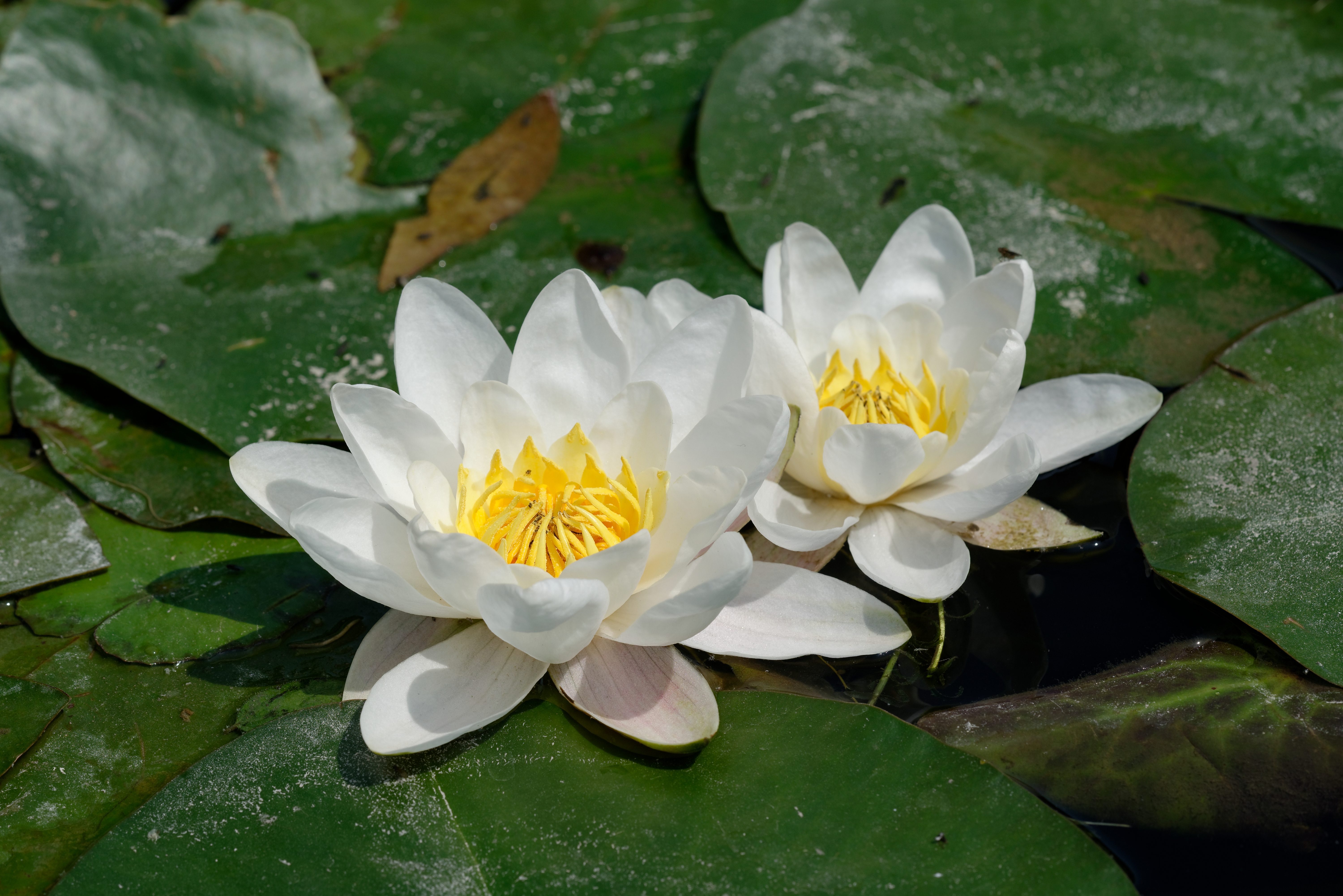 European White Waterlily (Nymphaea alba) in the botanical school of the Jardin des Plantes, Paris.